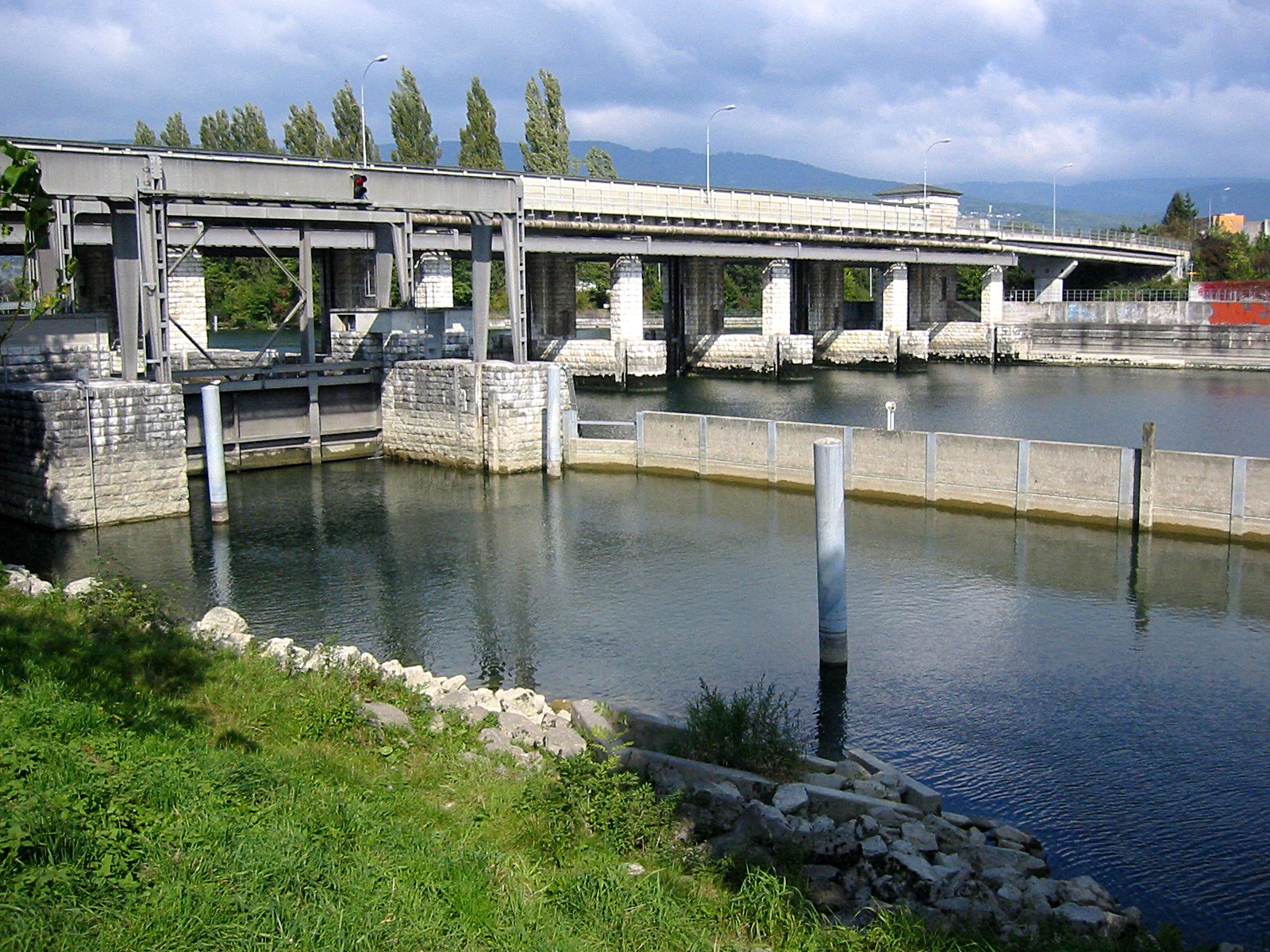 Weir at river Aar near Biel including a sluice and a power station, view from southeastern bank; Port, Berne, Switzerland